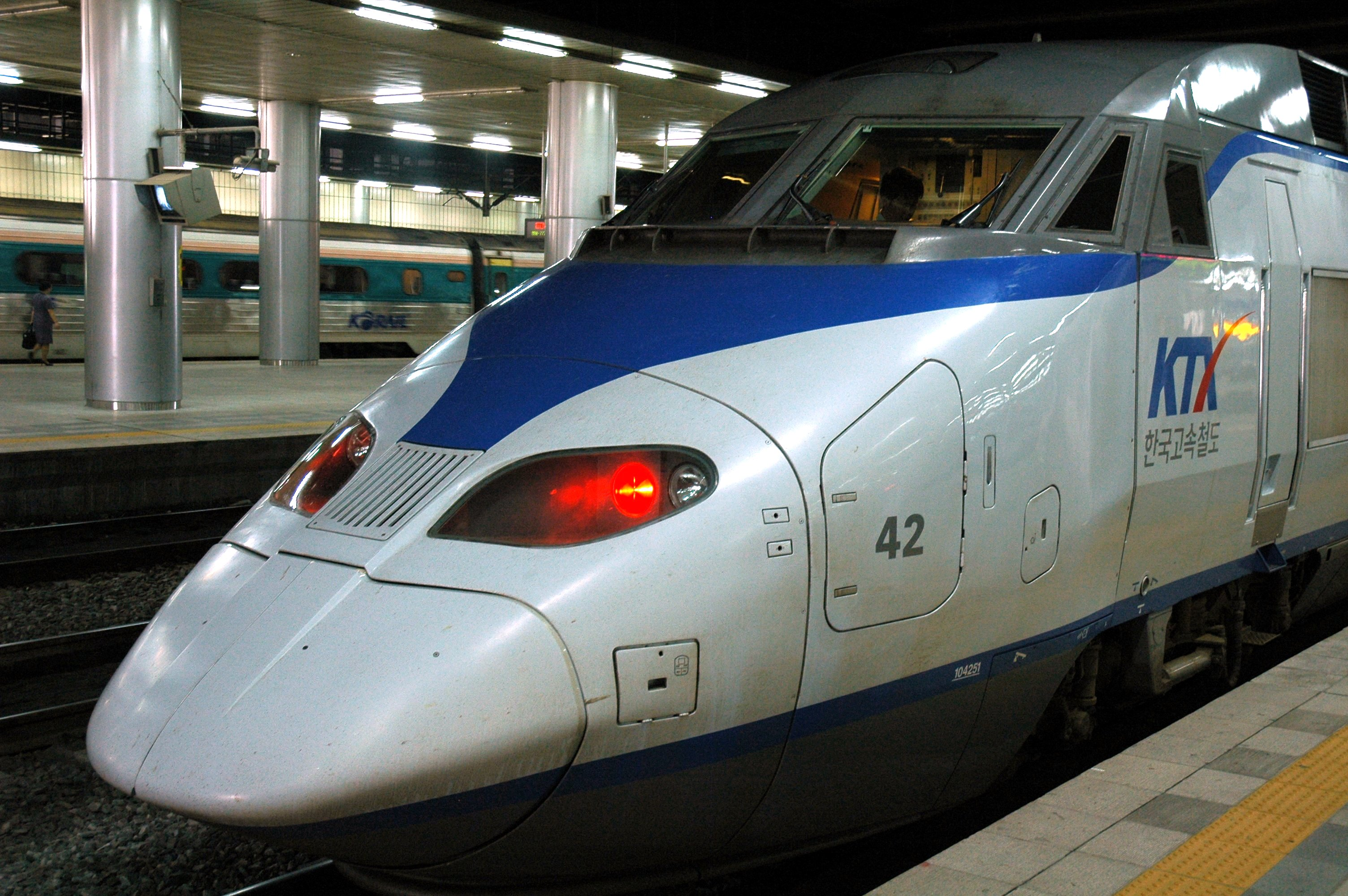 KTX train at Seoul Station. Photo taken by Jpatokal in June 2006.